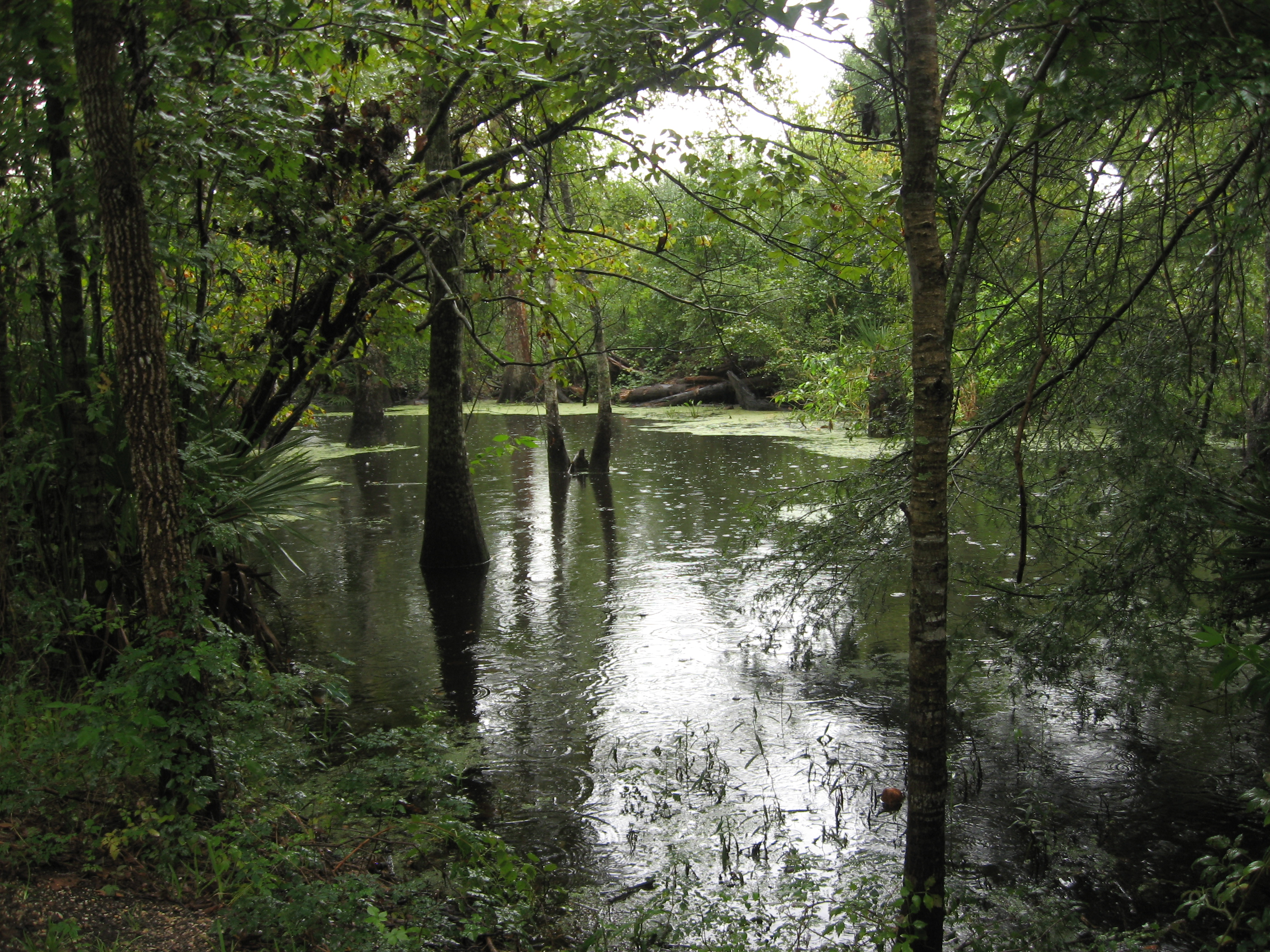 The Barataria Preserve outside Marrero offers a taste of Louisiana’s wild wetlands. The preserve’s 20,000 acres include bayous, swamps, marshes, forests, alligators, nutrias, and over 300 species of birds. Boardwalk and dirt trails wind through the preserve and waterways can be explored by canoe or kayak; hikers and paddlers can check out the preserve map here. Exhibits at the preserve visitor center highlight how the Mississippi River built Louisiana's wetlands, the national importance of the area, and the relation between the land and its people.